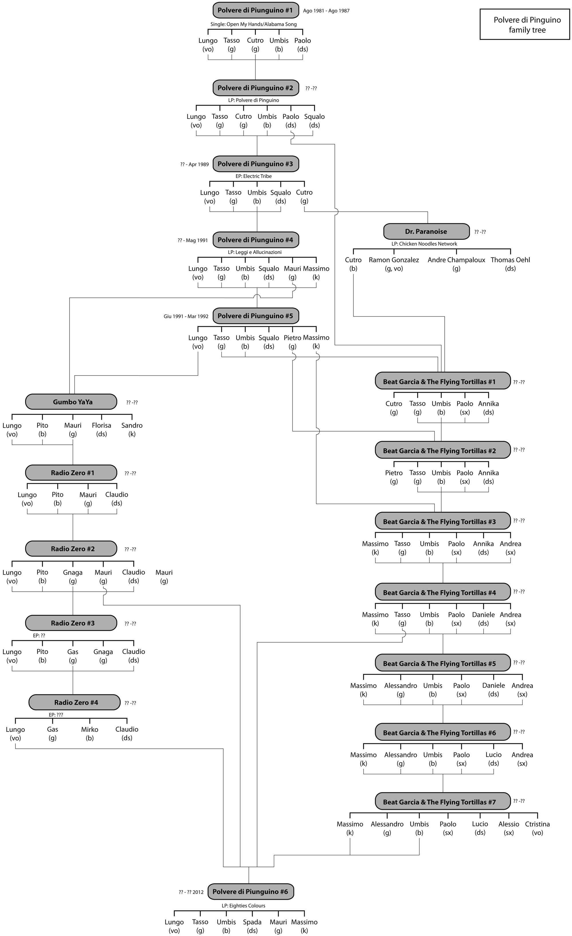 Polvere di Pinguino Family Tree